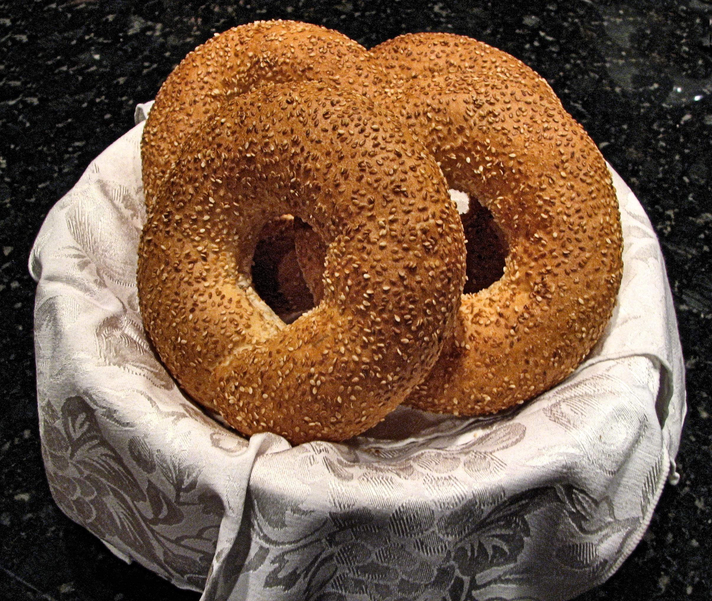 Photo of arabic bread, Kaak, originally created for the english wikipedia.